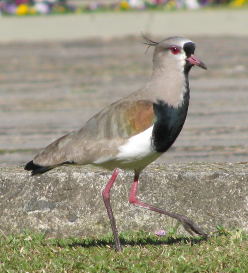 Quero-quero (Vanellus chilensis) at Praça 29 de Março, Curitiba.